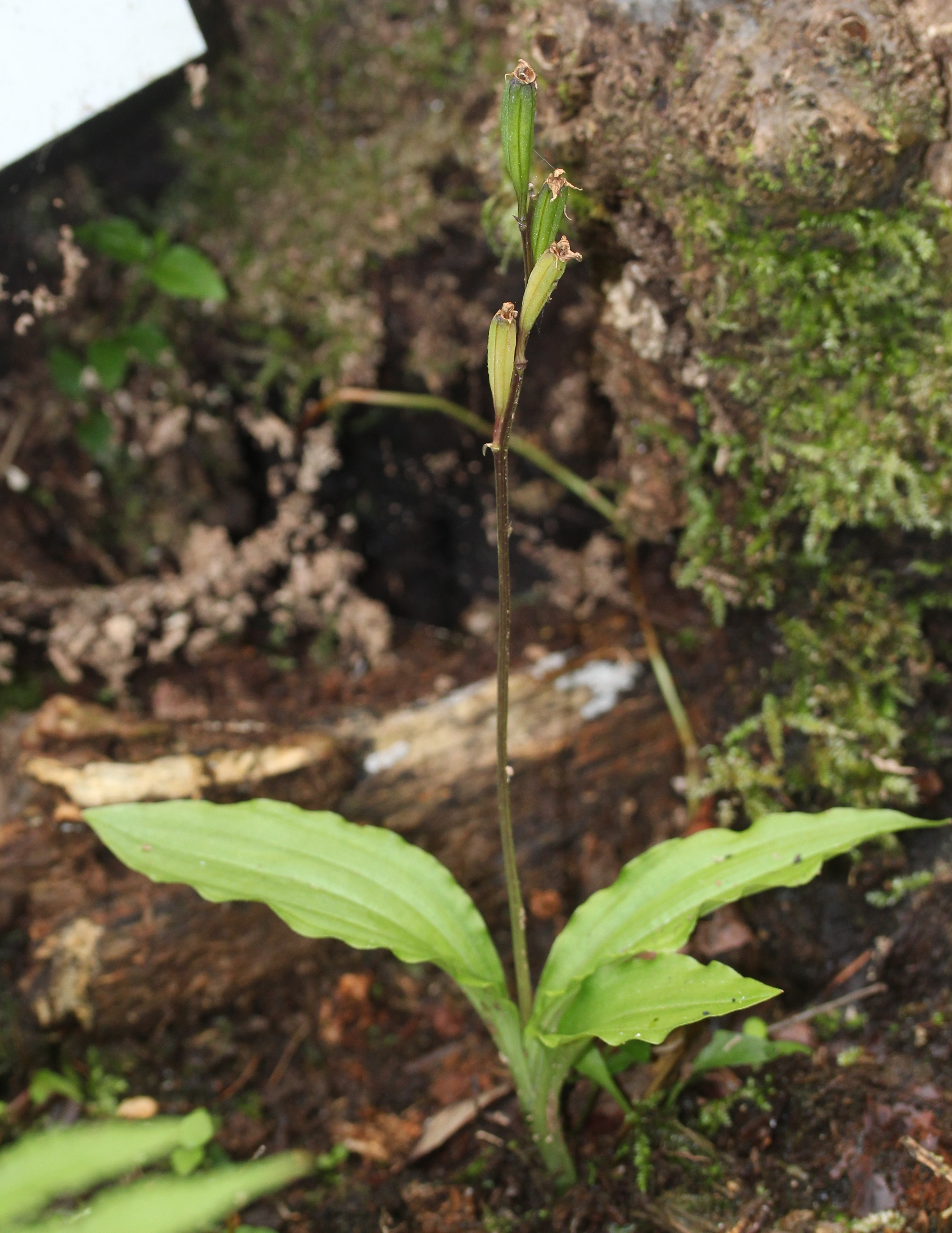 Liparis nervosa in Kasugai, Aichi prefecture, Japan.